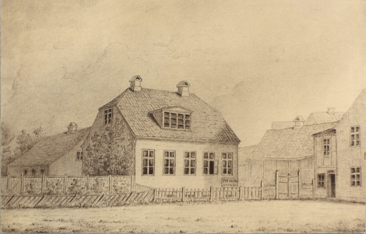 Gartner Hintze's house at Vesterbrogade 11 in Copenhagen, Denmark. It was located at the site where Helgolandsgade was later constructed.